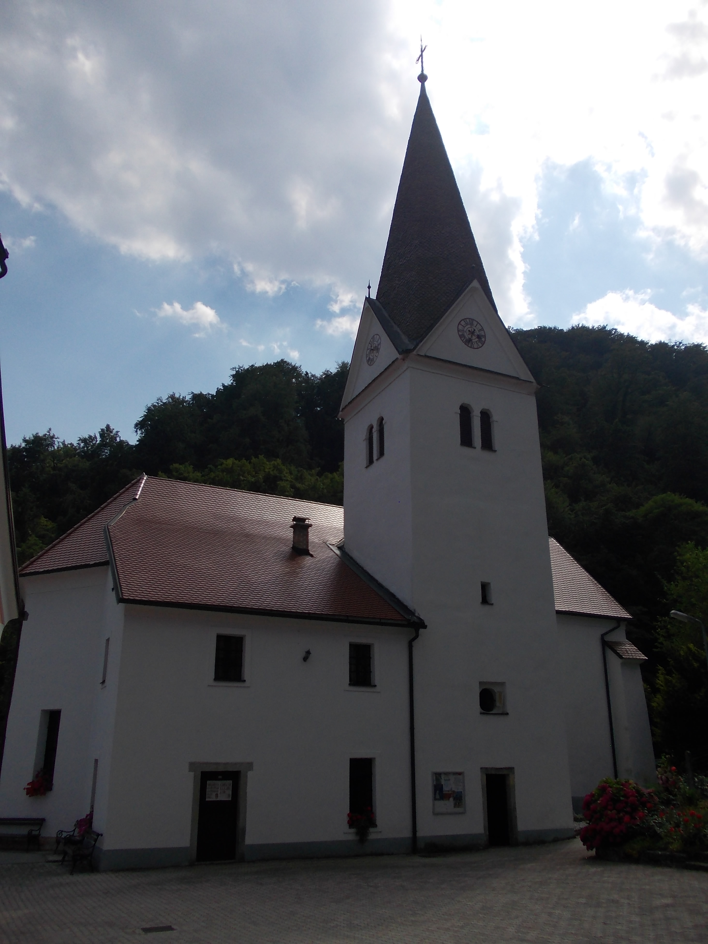 St. Lawrence's Parish Church (Podčetrtek)